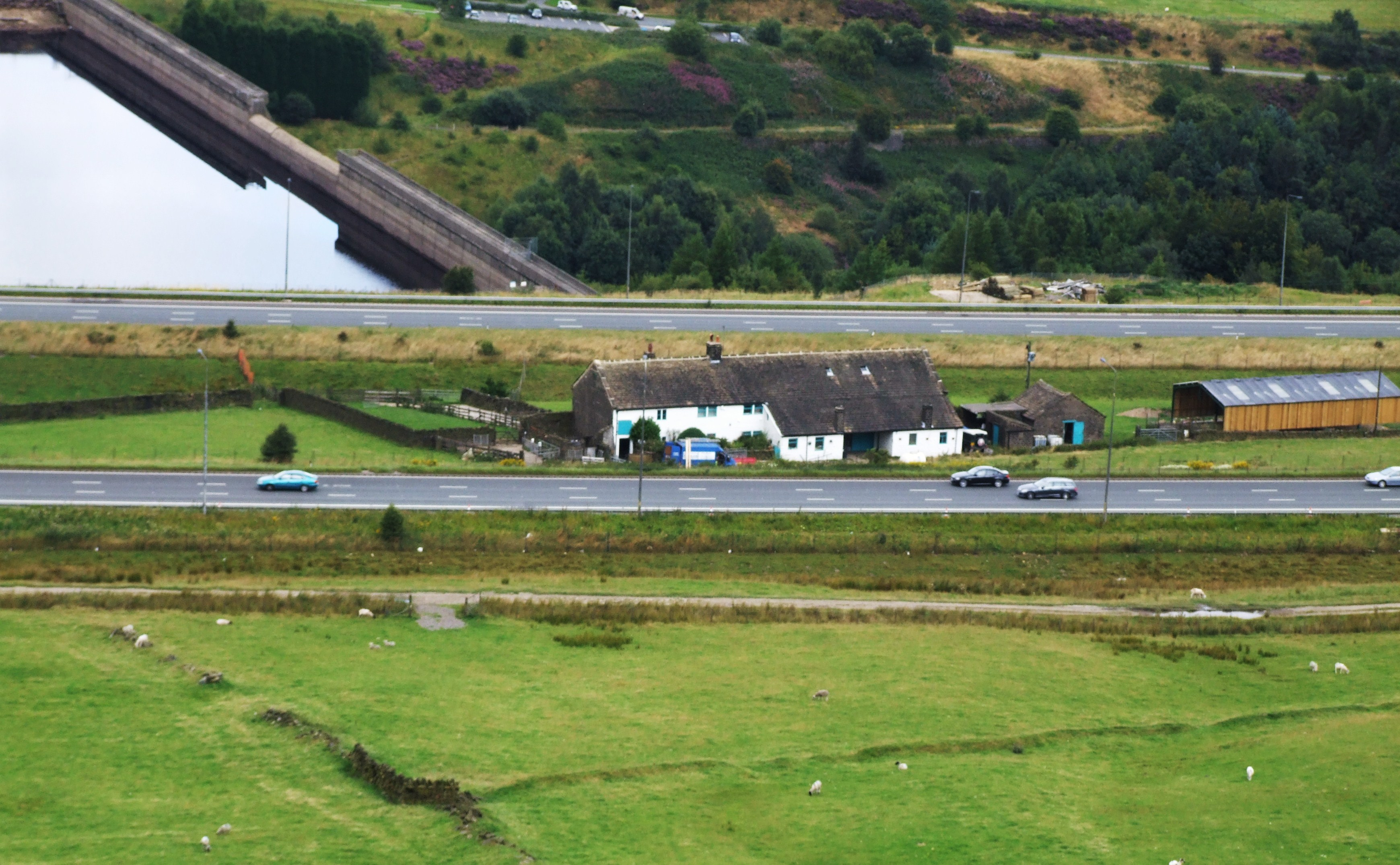 View of Stott Hall Farm, sandwiched between the east and westbound lanes of the M62 Motorway, West Yorkshire, England